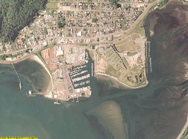 An aerial view of Tillamook County, Oregon.